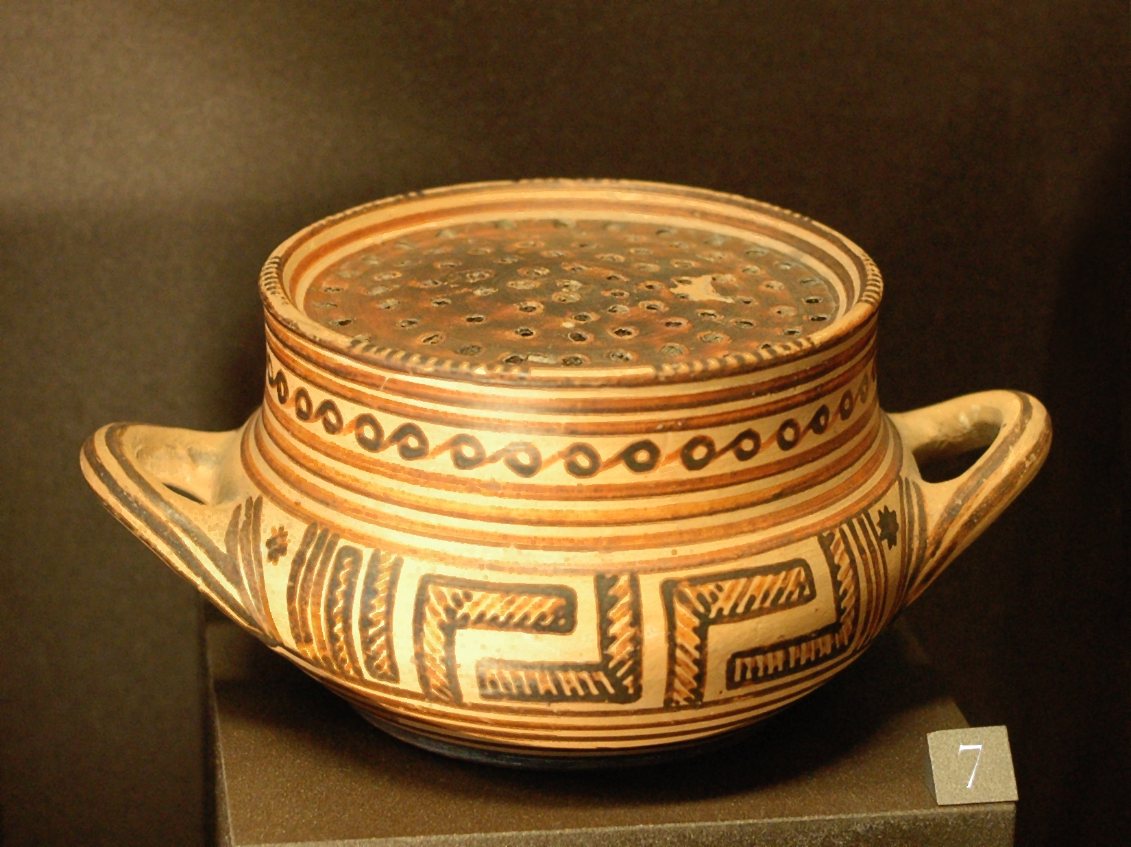 Attic cup-strainer, ca 775 BC–725 BC (Attic Late Geometric).